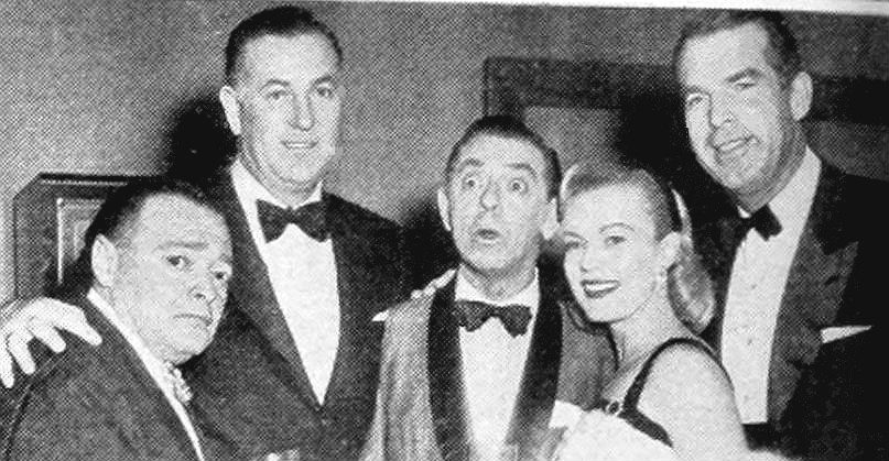 Photo of Jack Entratter with celebrities at the Sands hotel in 1956. The stars were in town for the premiere of the film ‘’Meet Me in Las Vegas’’. From left: Peter Lorre, Jack Entratter, Eddie Cantor, June Haver and Fred MacMurray.